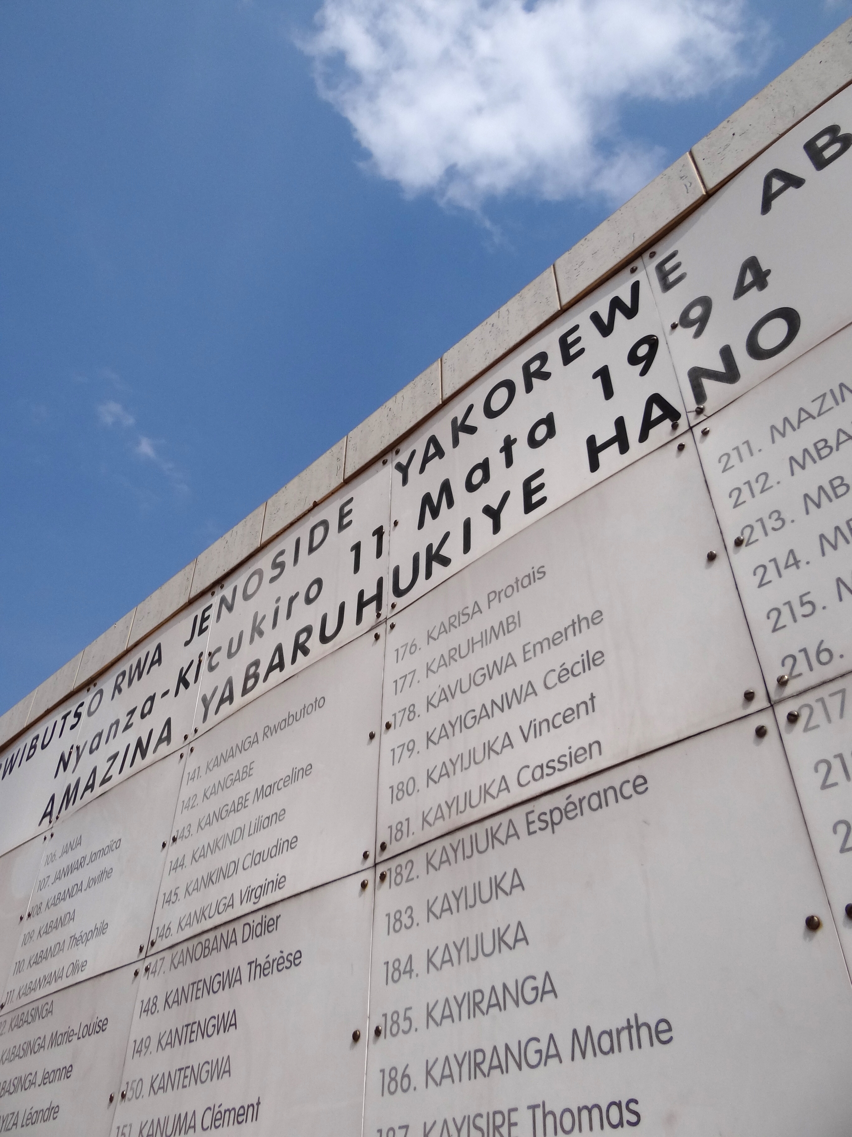 Monument Listing Names of Victims - Nyanza Genocide Memorial Site - Kicukiro District - Kigali - Rwanda - 01